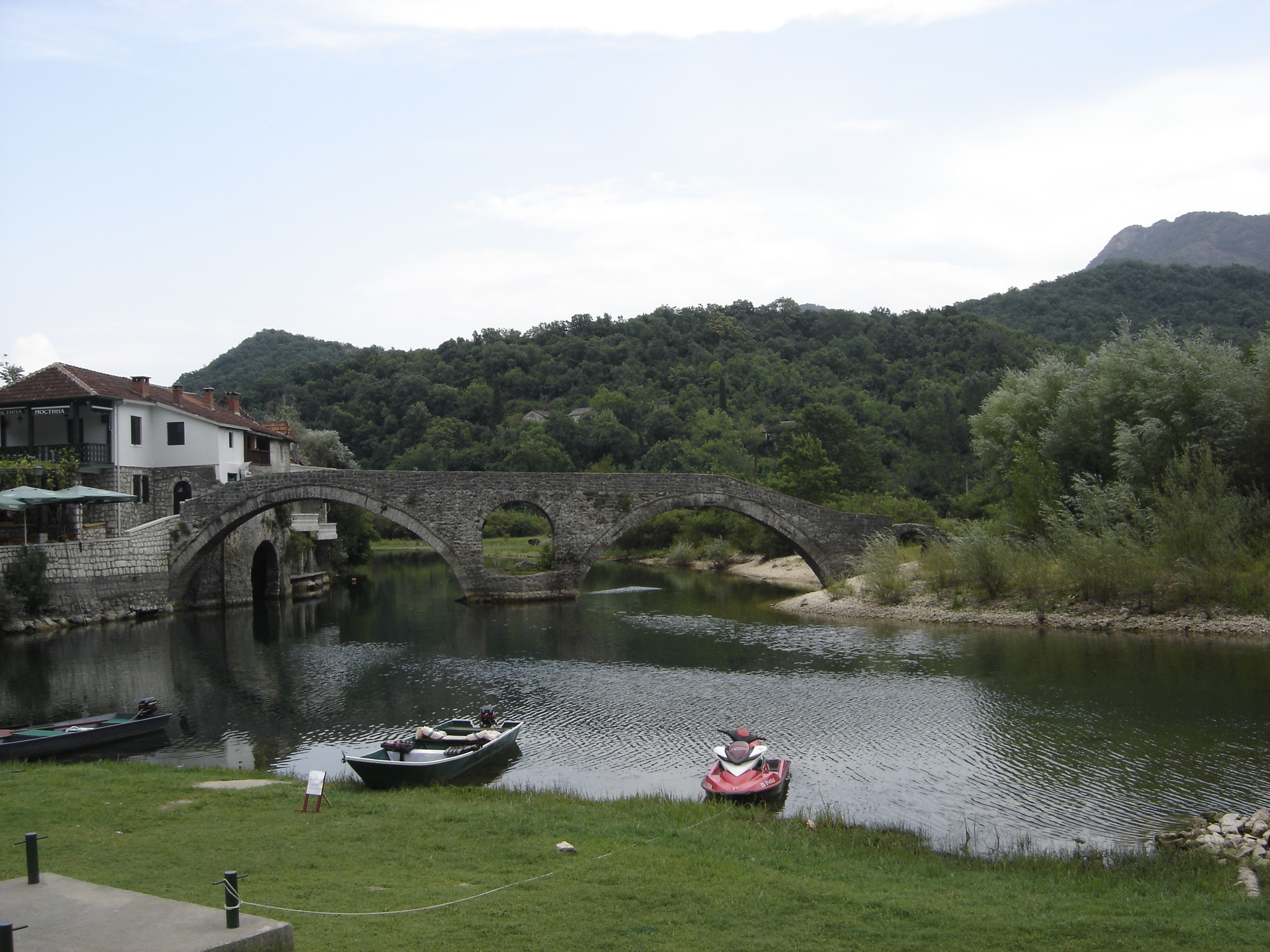 Old bridge of Rijeka Crnojevića in Montenegro from the municipality of Cetinje